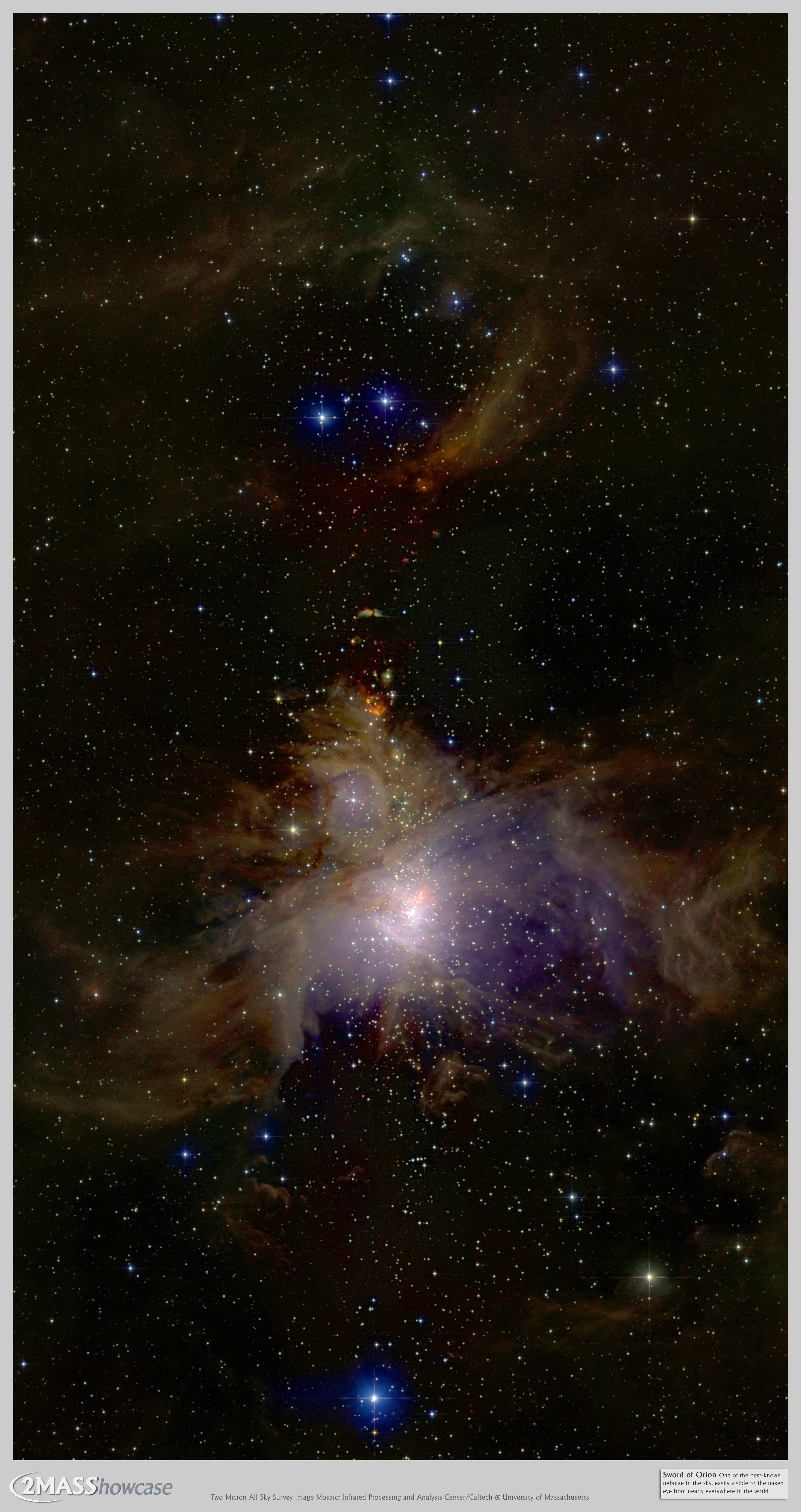 In the constellation of Orion, the hunter's belt is seen as three distinctive stars in a row. Hanging just "below" this belt is a fuzzy region, easily seen with the naked eye on a dark night, which is known as the "Sword," or "Great Nebula" of Orion. At a distance of 1500 light years, this is the nearest large region of star formation and is one of the most intensly studied regions of the sky. A giant stellar nursery, the Orion nebula is home to thousands of young stars, some of which are known to have disks of dust that may be forming new planets. At its core, a cluster of four massive stars (known as the Trapezium) provide most of the energy that causes this nebula to glow. In fact, the visible part of this nebula is just the glowing tip of a much larger cloud of dust and gas extending up and to the left. Known as the Orion A Molecular Cloud, this vast storehouse of material that can form new stars is hard to see except where hot, young stars have burst out and illuminate its surface. This infrared view of the Orion Nebula looks markedly different than the many familiar images taken in visible light. One reason is that hot, ionized gas emits much more visible than infrared light, mostly in the red part of the spectrum. However, in the infrared the obscuring clouds of dust are more transparent, allowing us to see deeper into this star forming region and revealing otherwise hidden stars. None of the reddest objects in this picture can be seen in visible light!